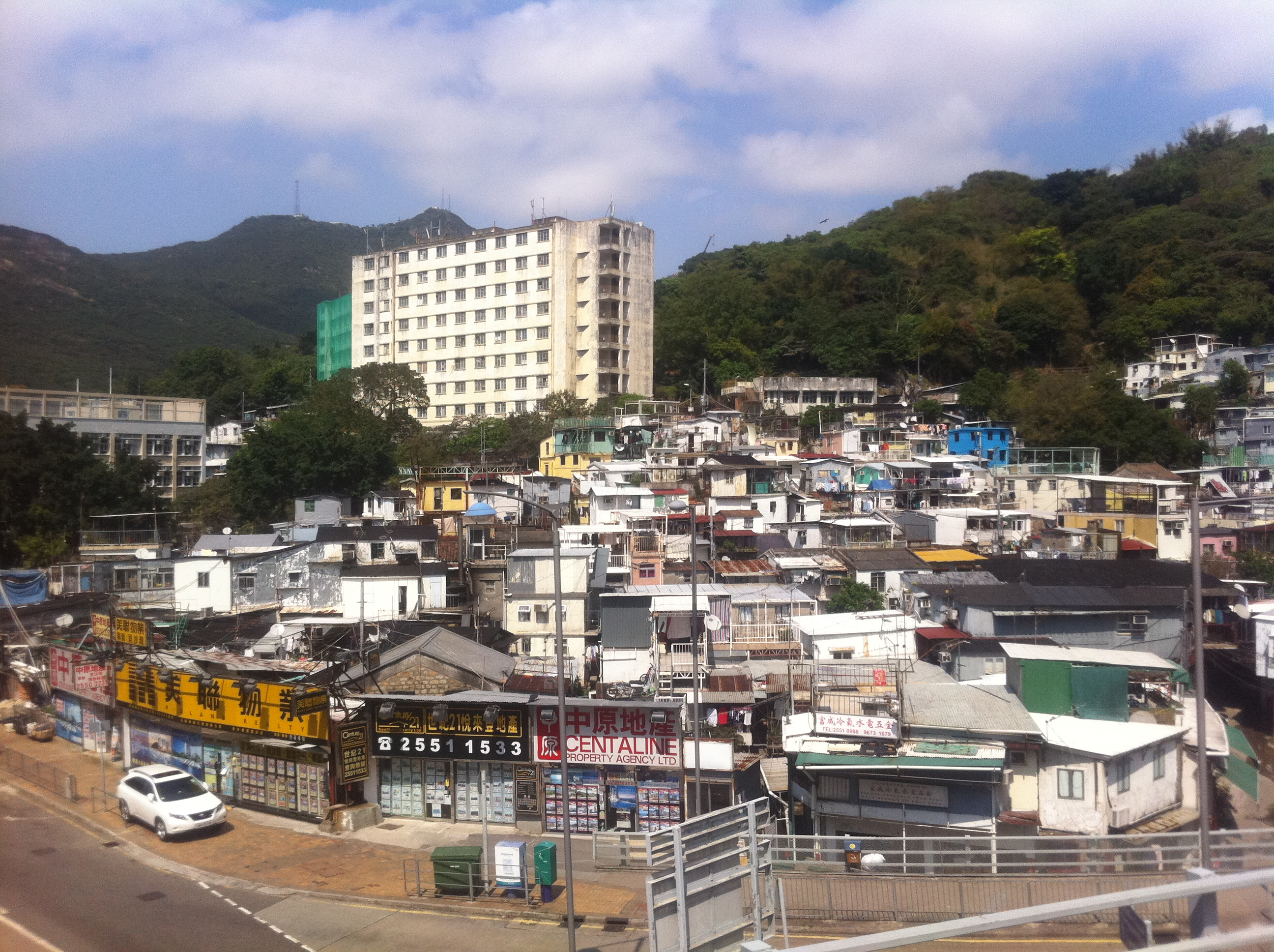 薄扶林村, 置富道, 薄扶林, Pok Fu Lam Village, Chi Fu Road, Hong Kong